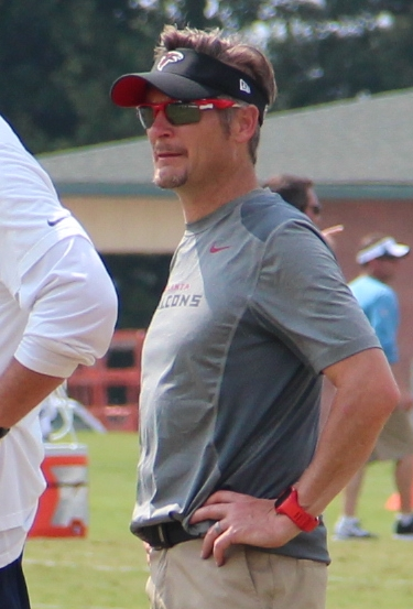 Thomas Dimitroff at training camp, 2014